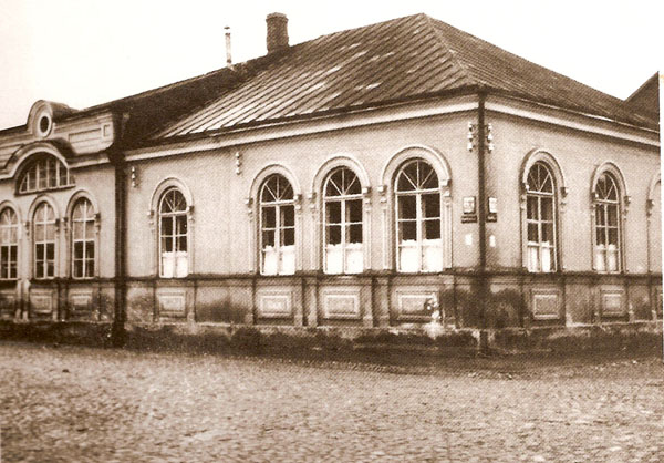 Daugavpils synagogue “Kadish”